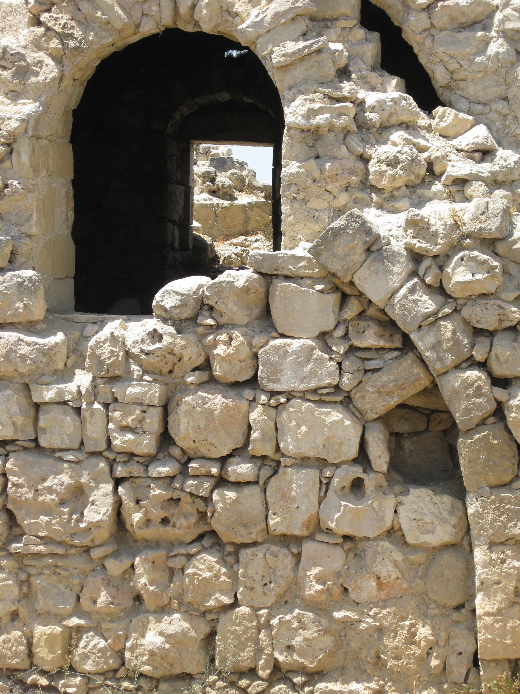 A part of the main building of the Belmont Castle (Israel)